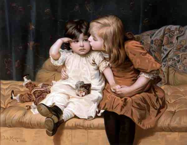 "Never Mind", from a Pears Annual